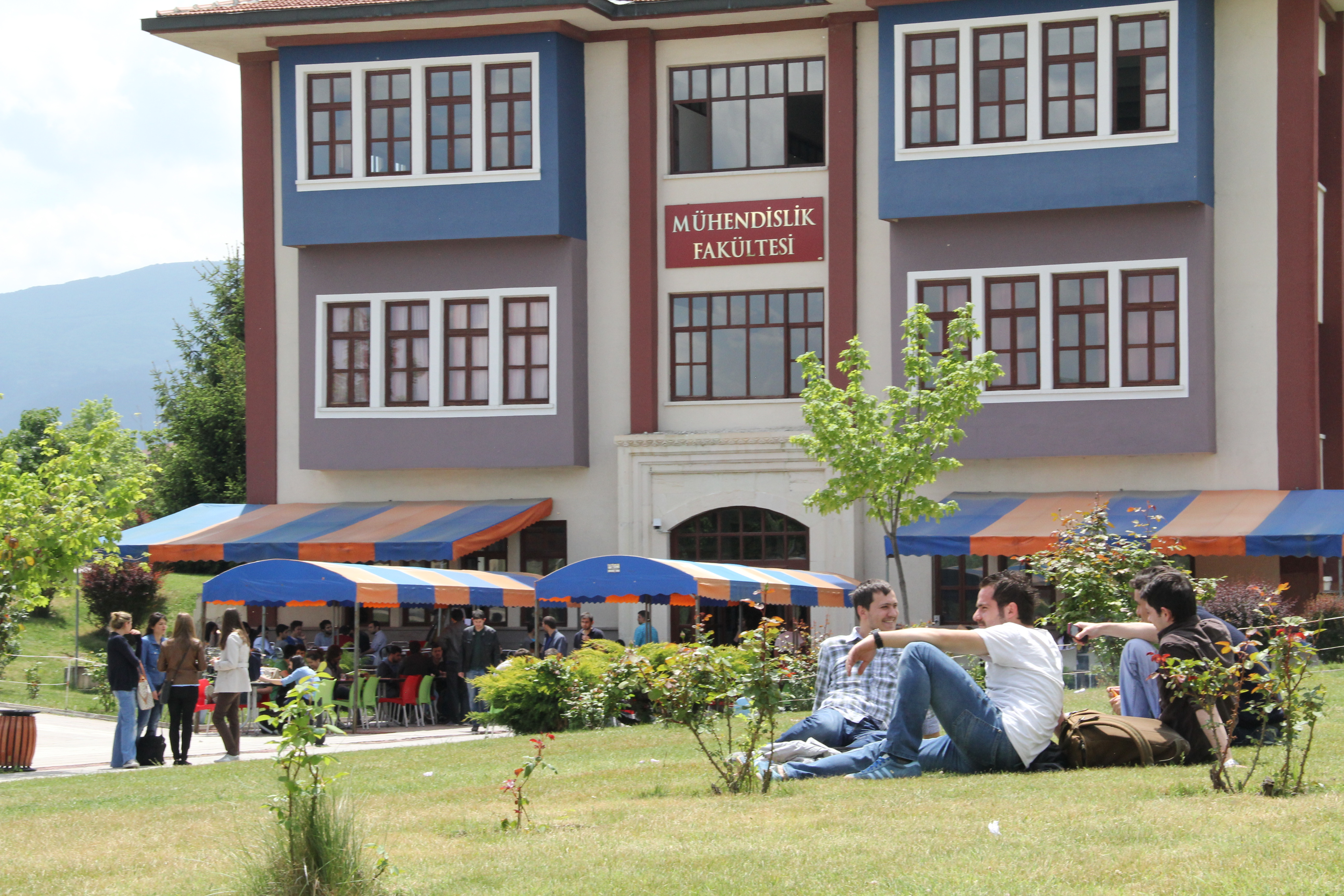 Faculty of Engineering in Evliya Çelebi Campus of Kütahya Dumlupınar University